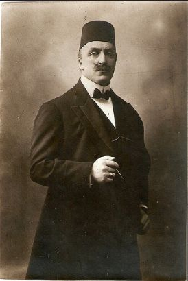 Portrait of the last Caliph Abdulmejid II of the Ottoman Empire.